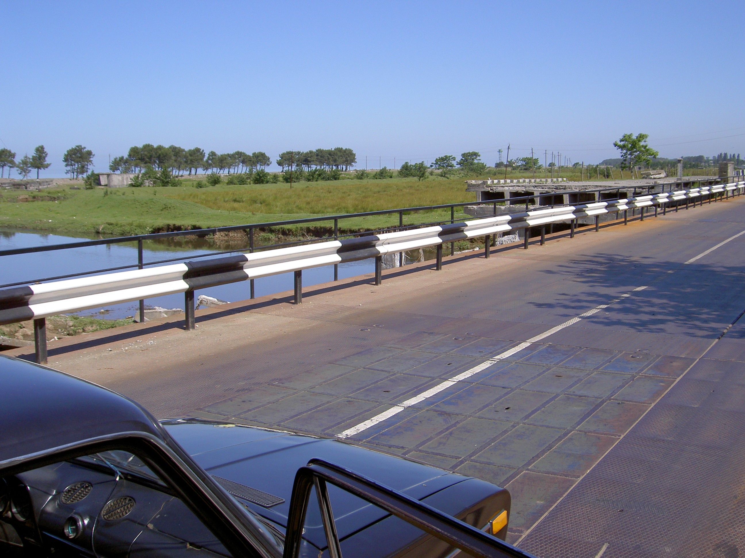 Road E70, between Batumi and Poti, temporary bridge over the river Choloki, border between Adjara and the rest of Georgia. To the left remains of the bridge blown up May 2004